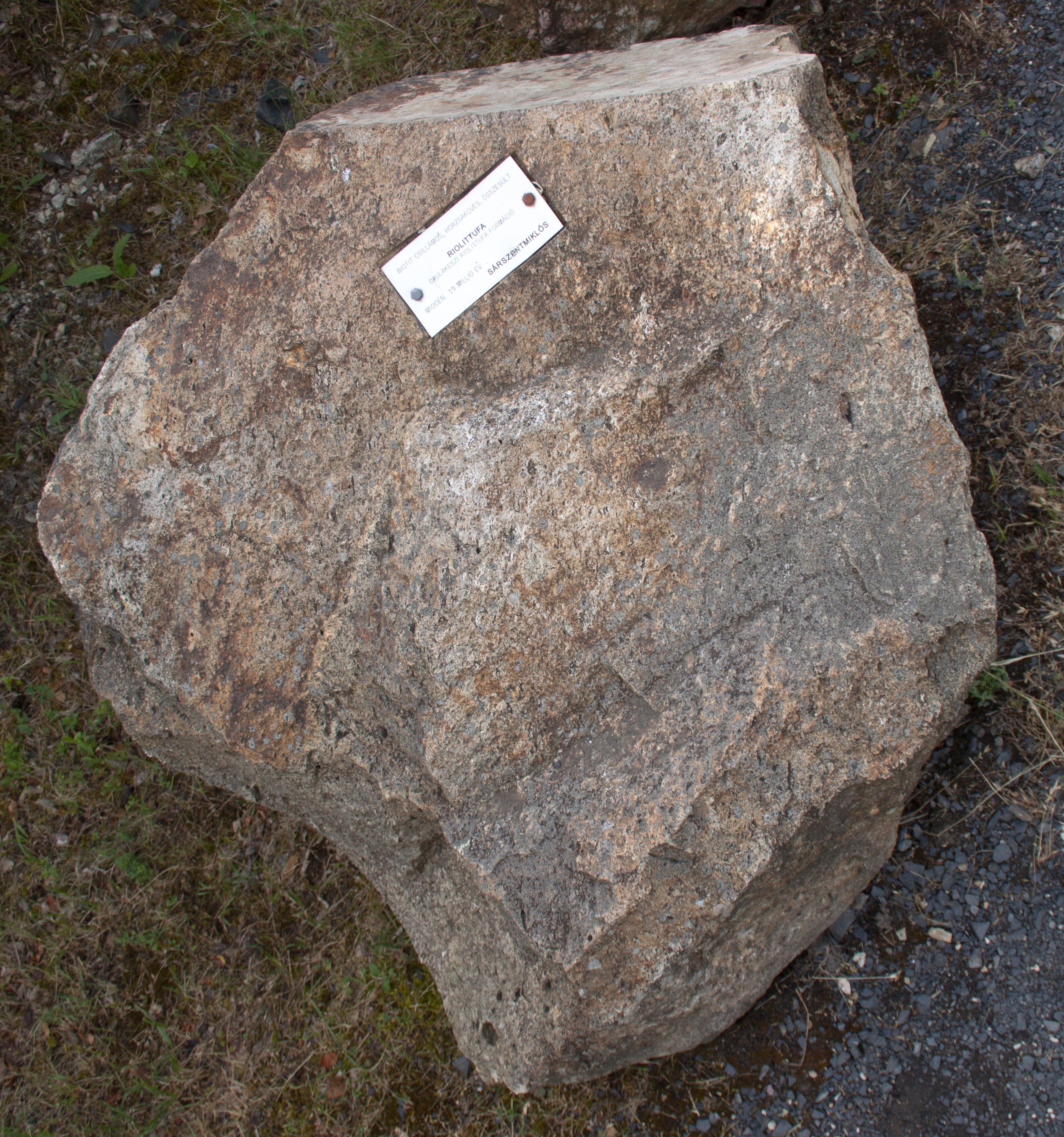 Riolit tuff, Miocene, 19 million years Sárszentmiklós